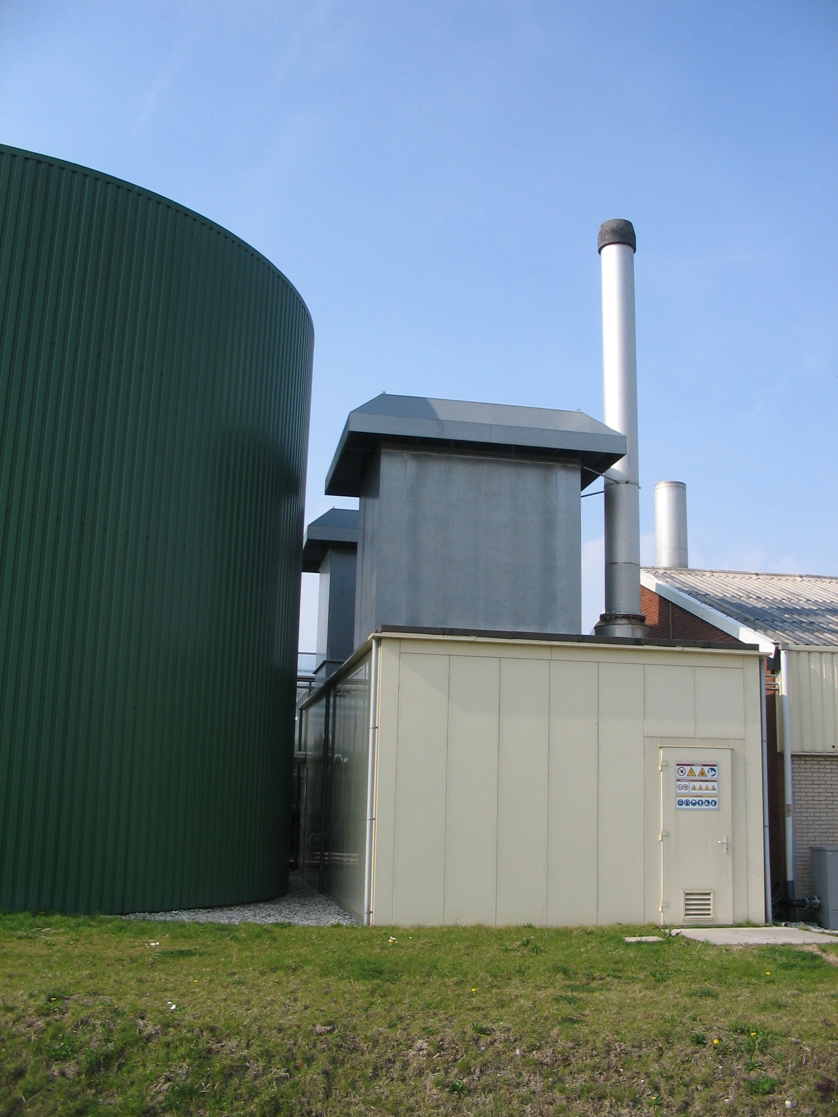 a cogeneration plant (middle) and a heat water tank (left) used at a greenhouse in De Lier, Netherlands